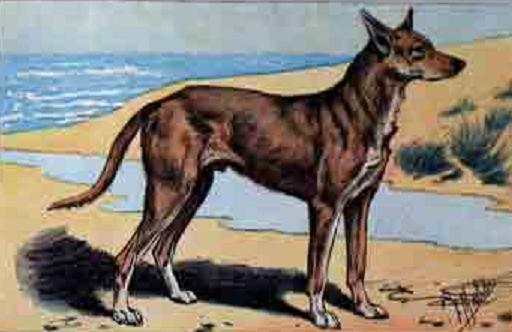 a dog from the Breed Charnaigre of Provence France disapeared at the beginning of XXth Century